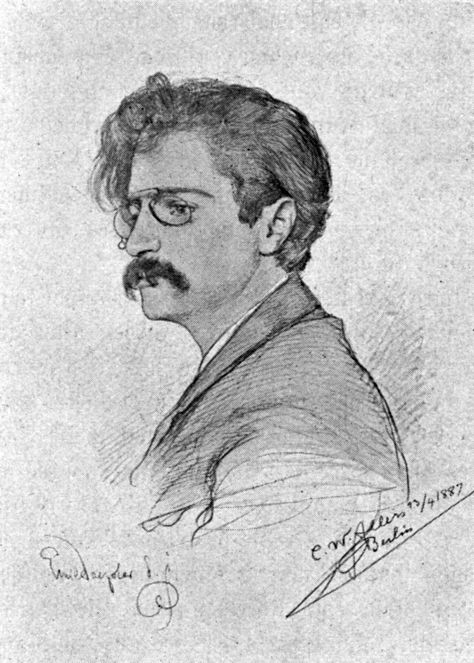 Portrait of German painter Emil Doepler (1855-1922) by Christian Wilhelm Allers